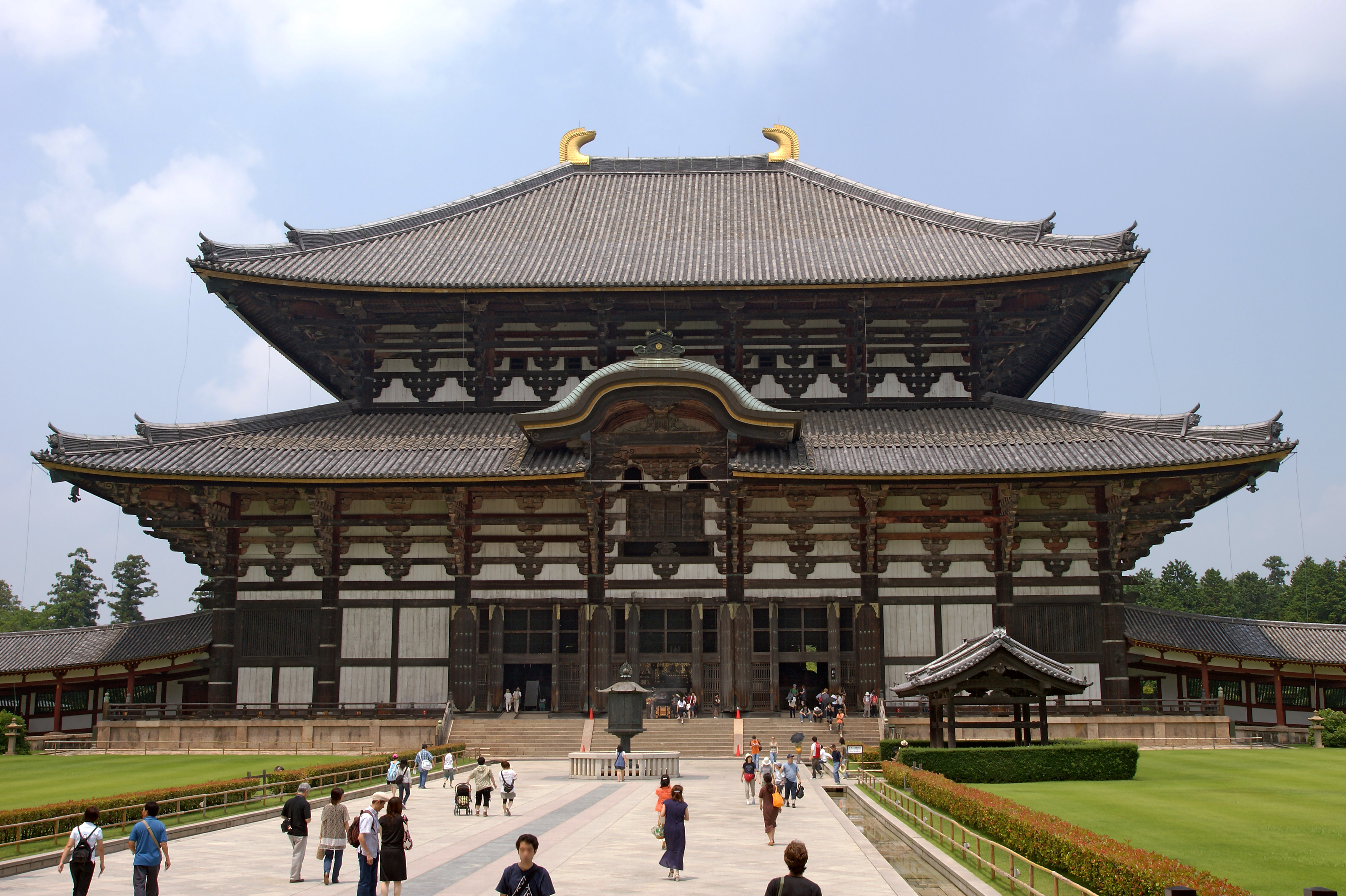 Todaiji in Nara, Nara prefecture, Japan